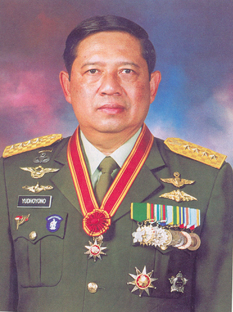 Susilo Bambang Yudhoyono in official military potrait, 2000.